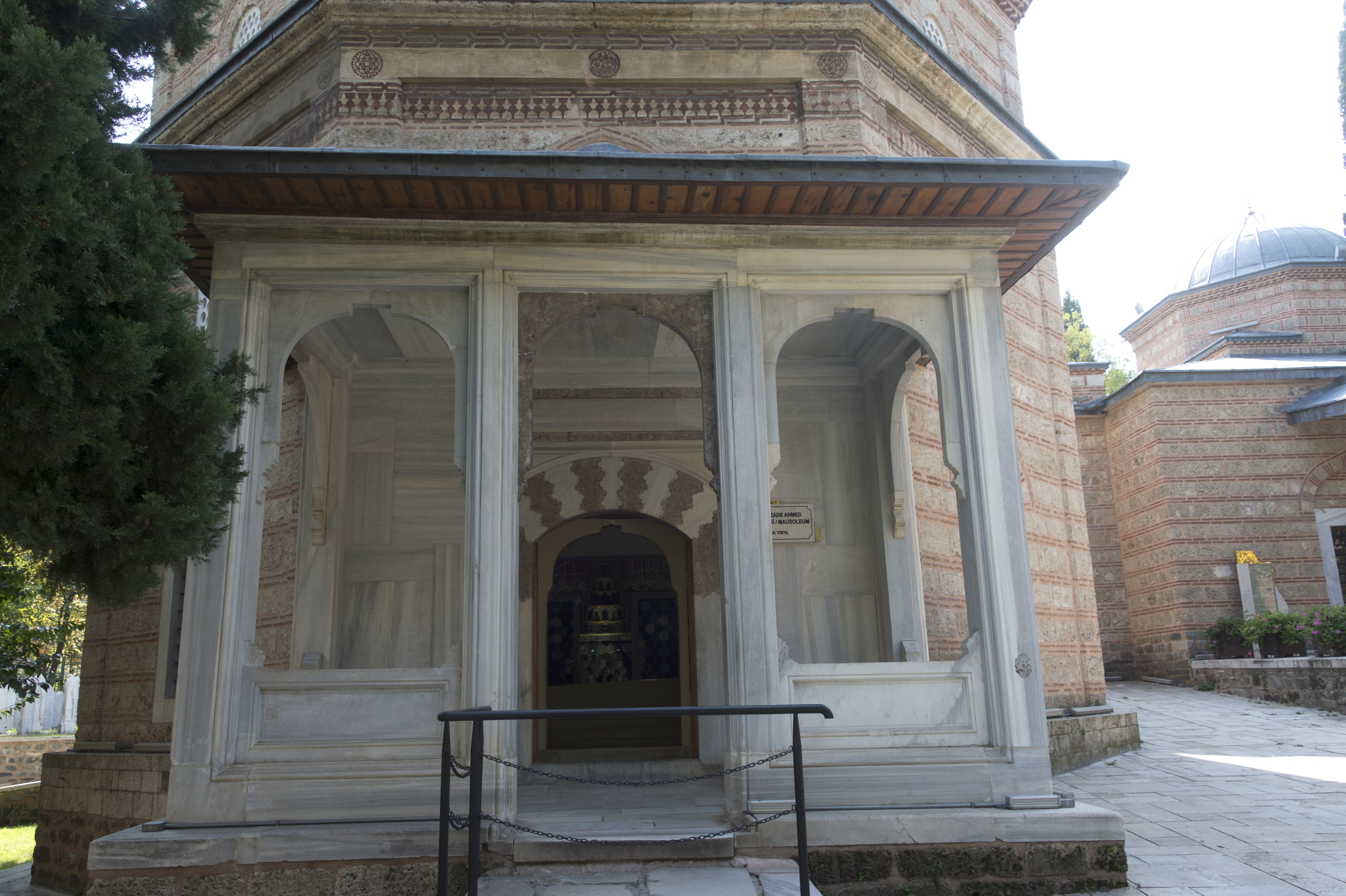 This mausoleum was built, according to an edict given by Yavuz Sultan Selim (who had him killed) in 1513. The door is made using “kündekârî” technique, that is, without use of nails, only using interconnecting timber pieces). On the dome and its skirts are hand-drawn ornaments. Inside there are six marble tombs on a marble platform.